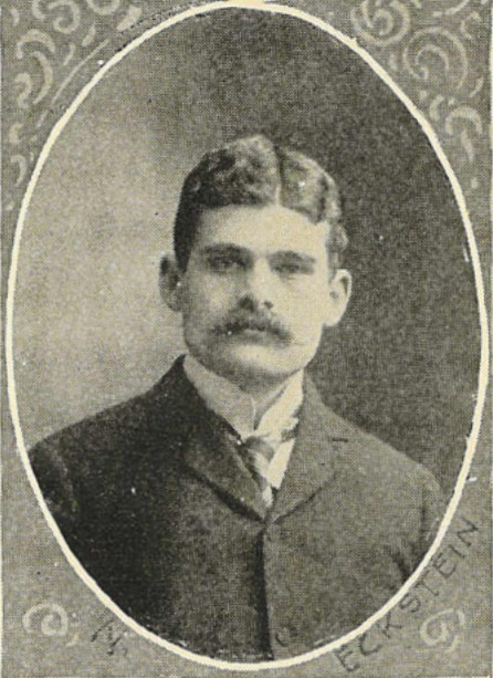 Nathan Eckstein of the Schwabacher Brothers Co., Seattle, Washington. In the late 19th and early 20th century, Schwabacher Brothers were Seattle's (and the region's) leading wholesale grocers; they also owned a wharf and one of the city's most prominent hardware stores.